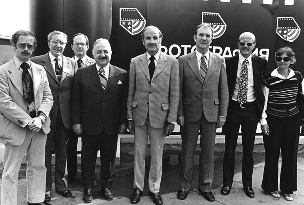 Tbilisi, 1977: American Senator George McGovern drops by Photography USA. Exhibit Director Frank Ursina (left) and Paul Smith (far left) look on.